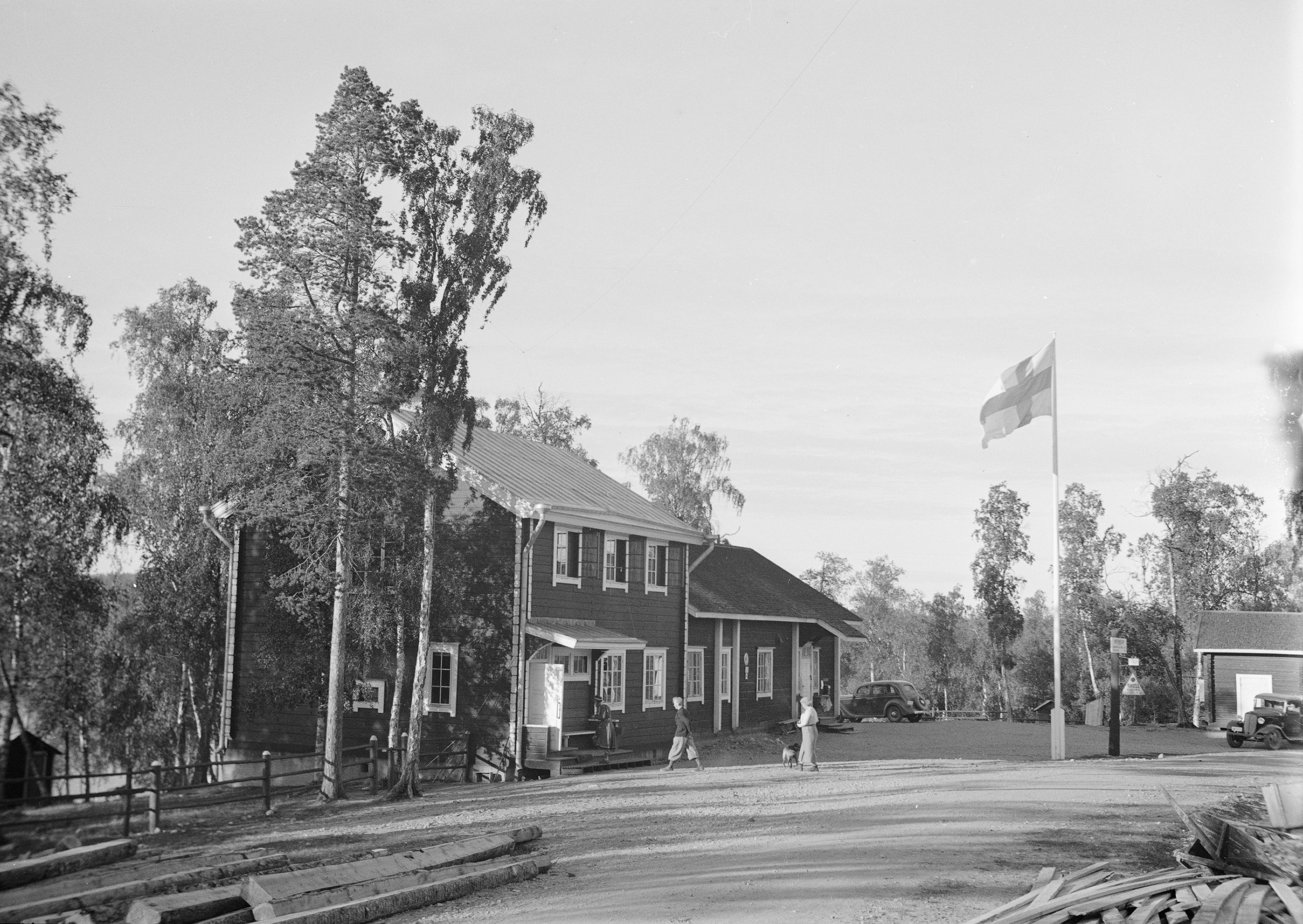 Virtaniemi Hostel in Nellim, Inari, Finland.